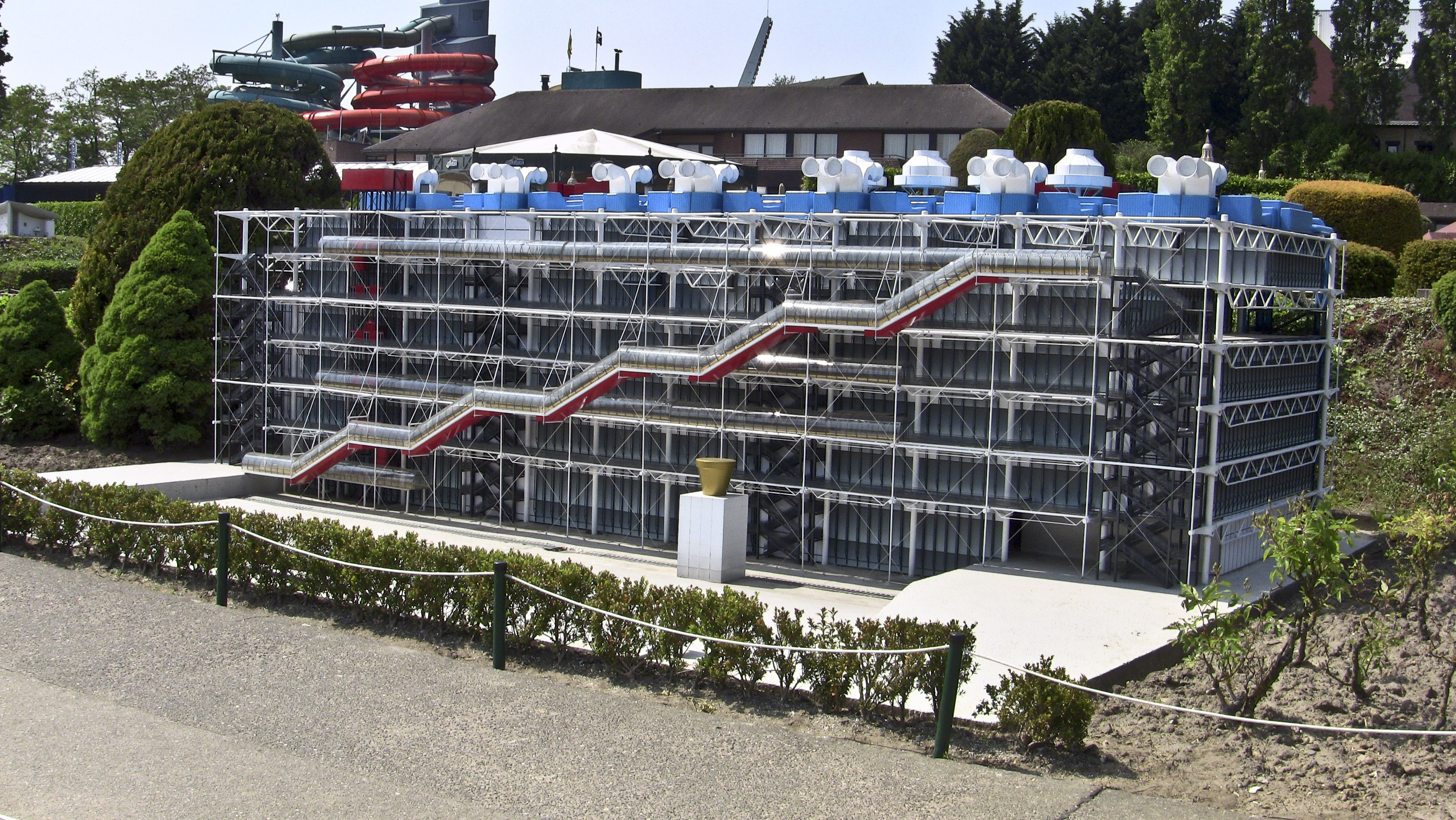 Centre Georges Pompidou (constructed 1971–1977 and known as the Pompidou Centre in English) is a complex in the Beaubourg area of the 4th arrondissement of Paris, near Les Halles, rue Montorgueil and the Marais. It was designed in the style of high-tech architecture. It houses the Bibliothèque publique d'information, a vast public library, the Musée National d'Art Moderne which is the largest museum for modern art in Europe, and IRCAM, a centre for music and acoustic research. Because of its location, the Centre is known locally as Beaubourg. It is named after Georges Pompidou, the President of France from 1969 to 1974 who decided its creation, and was officially opened on 31 January 1977 by then-French President Valéry Giscard d'Estaing. The Centre Pompidou has had over 150 million visitors since 1977.